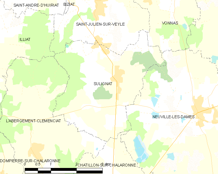 Map of French commune: Sulignat Map commune FR insee code 01412.png